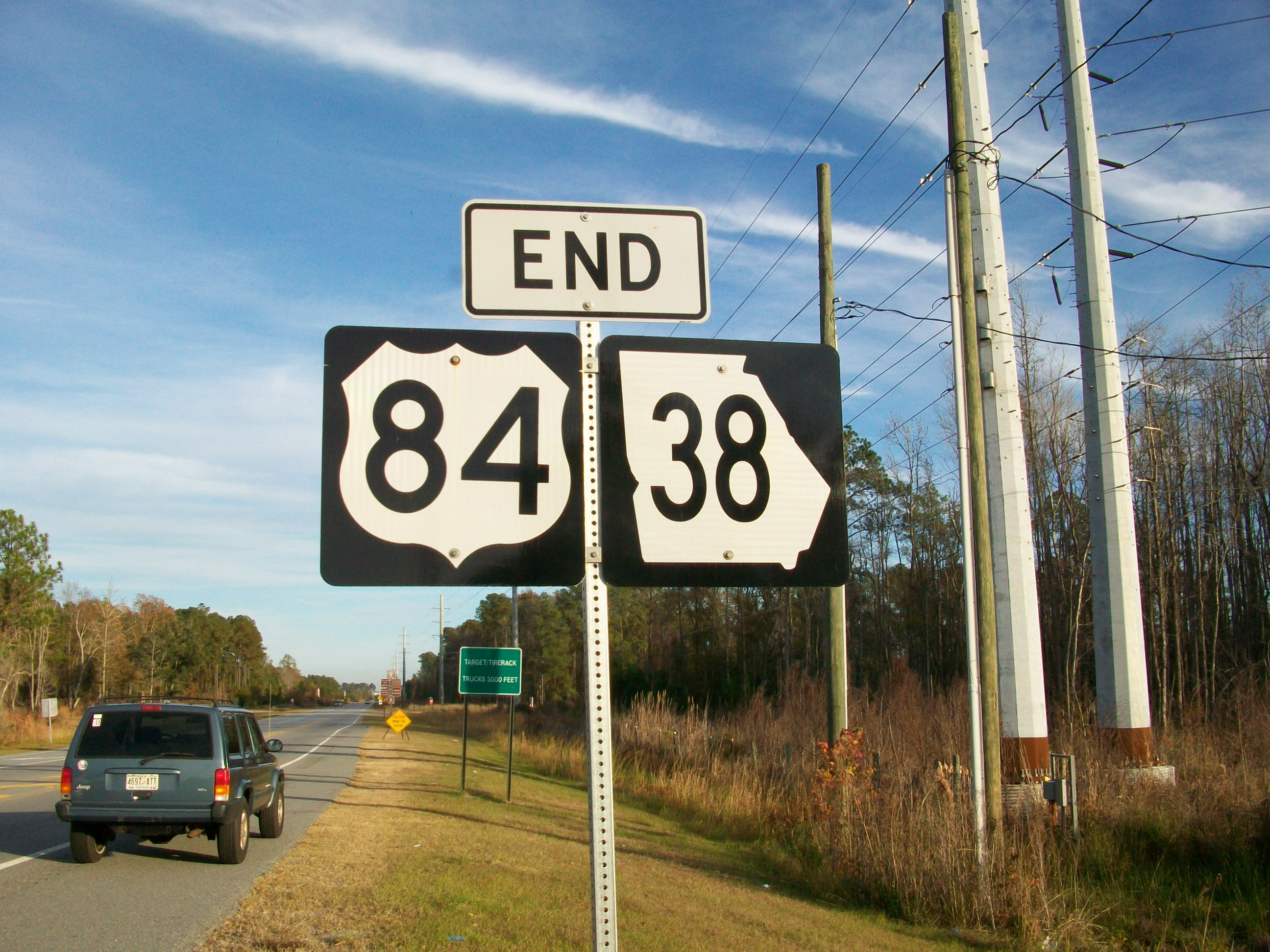 This is the sign that marks the end of 1,919 mile route of US Route 84 east of Interstate 95 in Midway, Liberty County, Georgia. Georgia State Route 38 is co-signed with US Route 84 through its entire route in Georgia.